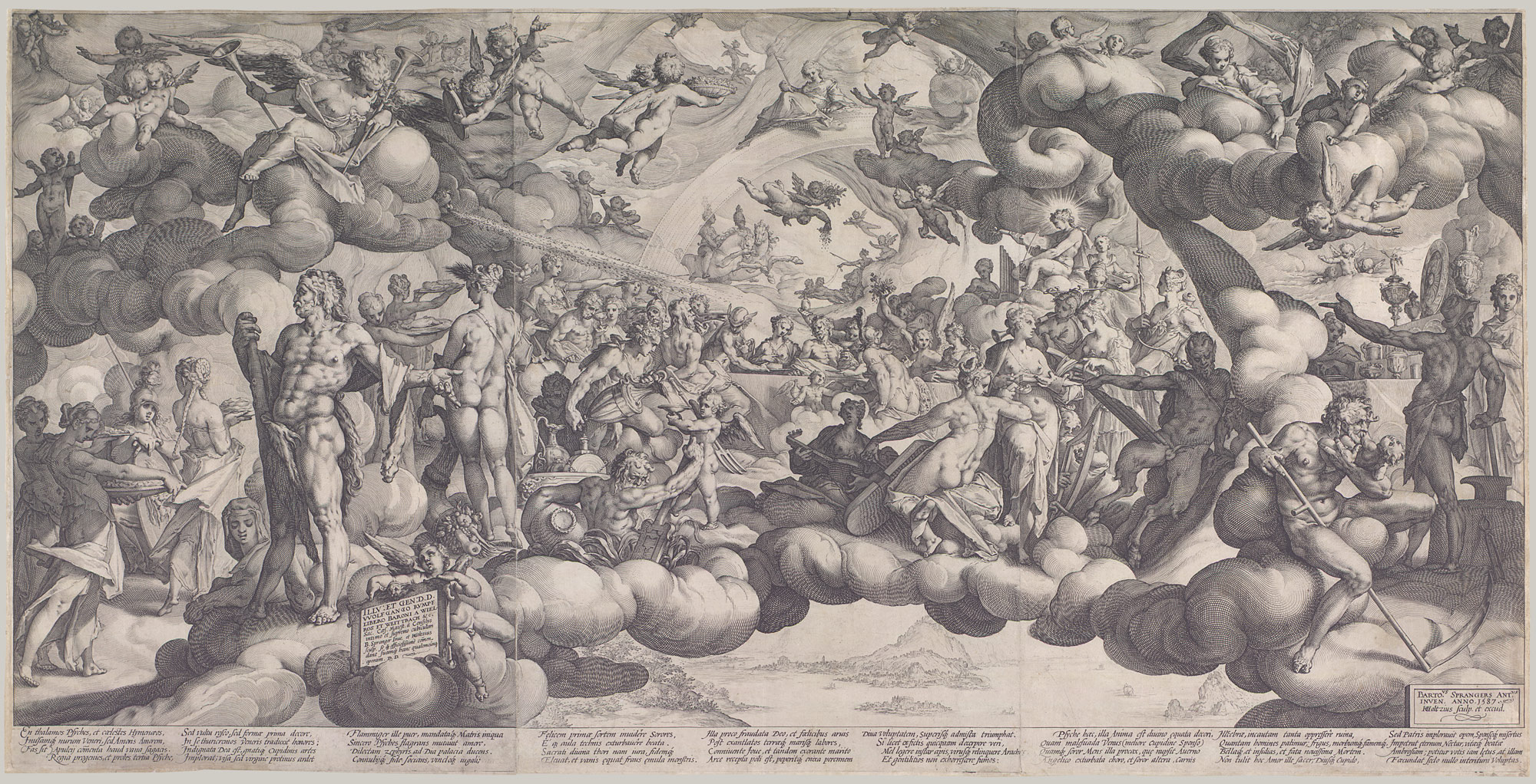 Wedding of Cupid and Psyche.